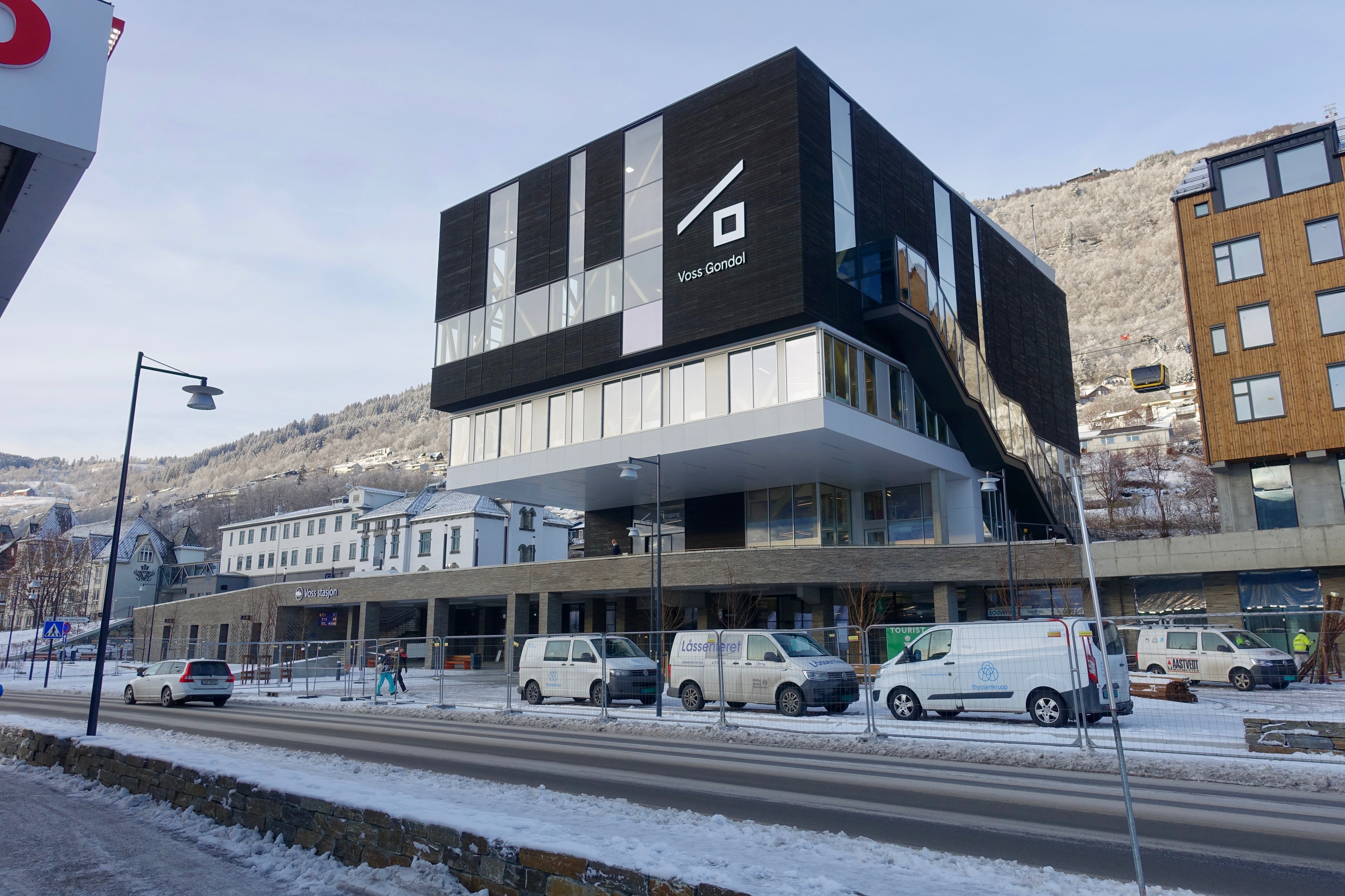 Buildings by the European route E16 (Evangerveien) in the small town of Vossevangen in Voss municipality| in the western part of Norway: Voss Railway Station and the lower, bottom station of the Voss Gondol, an aerial passenger lift (gondolheis, taubane) opened in 2019, etc. The gondola lift goes from teh Trafikknuteunktet up to the summit, ski resort, and hiking area of the Hangur mountain at 820 metres above sea level, north of the village. The early afternoon sunset colours the snowy landscape red/yellow and blue due to the low sun and long shadows from the mountains. Photo taken on November 20th, 2019.